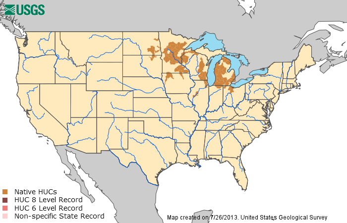 Distribution of Pugnose Shiner (2013)